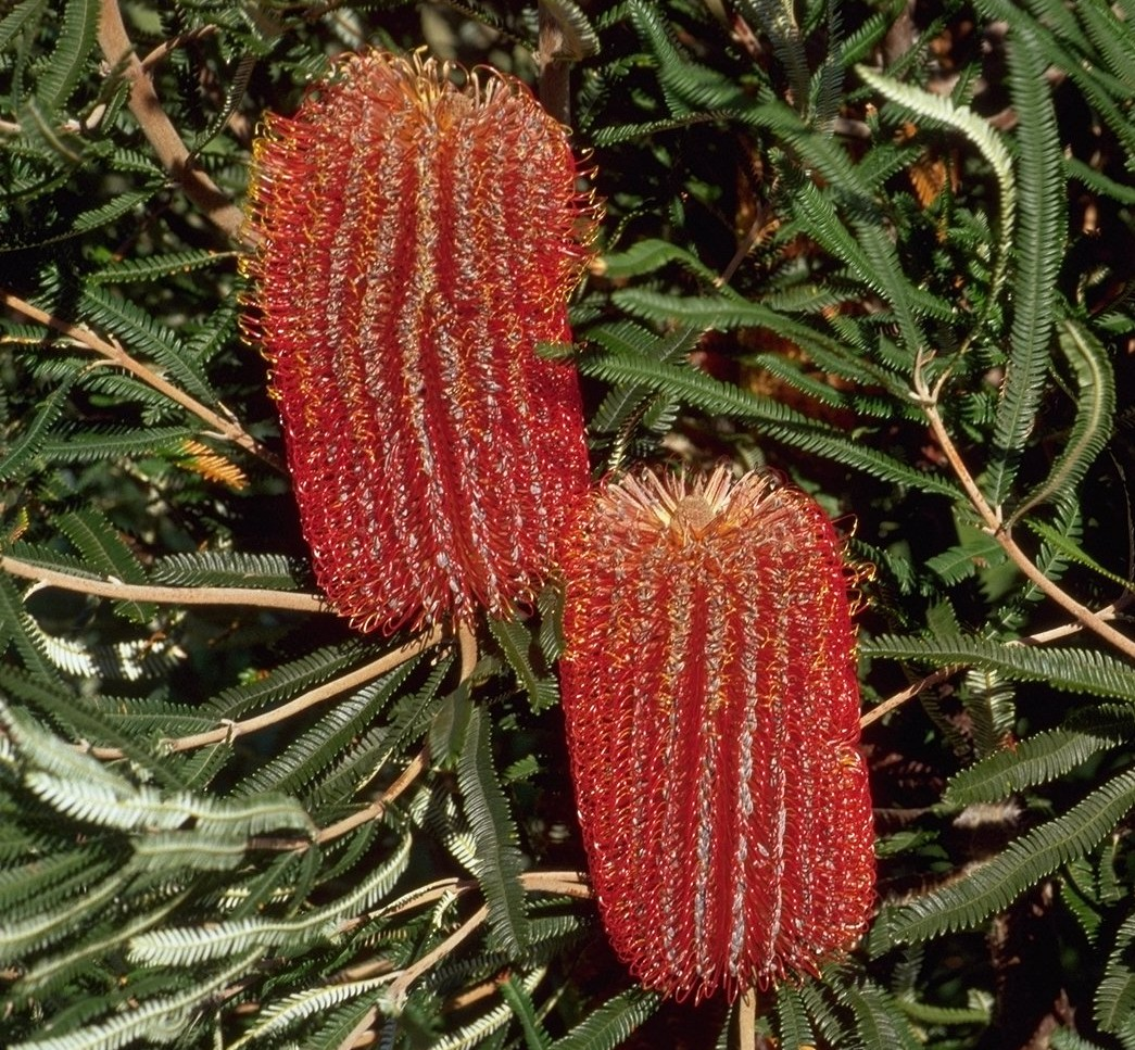 This is a photograph of the shrubby form of Banksia brownii. It was taken at the Banksia Farm in Mount Barker, Western Australia.